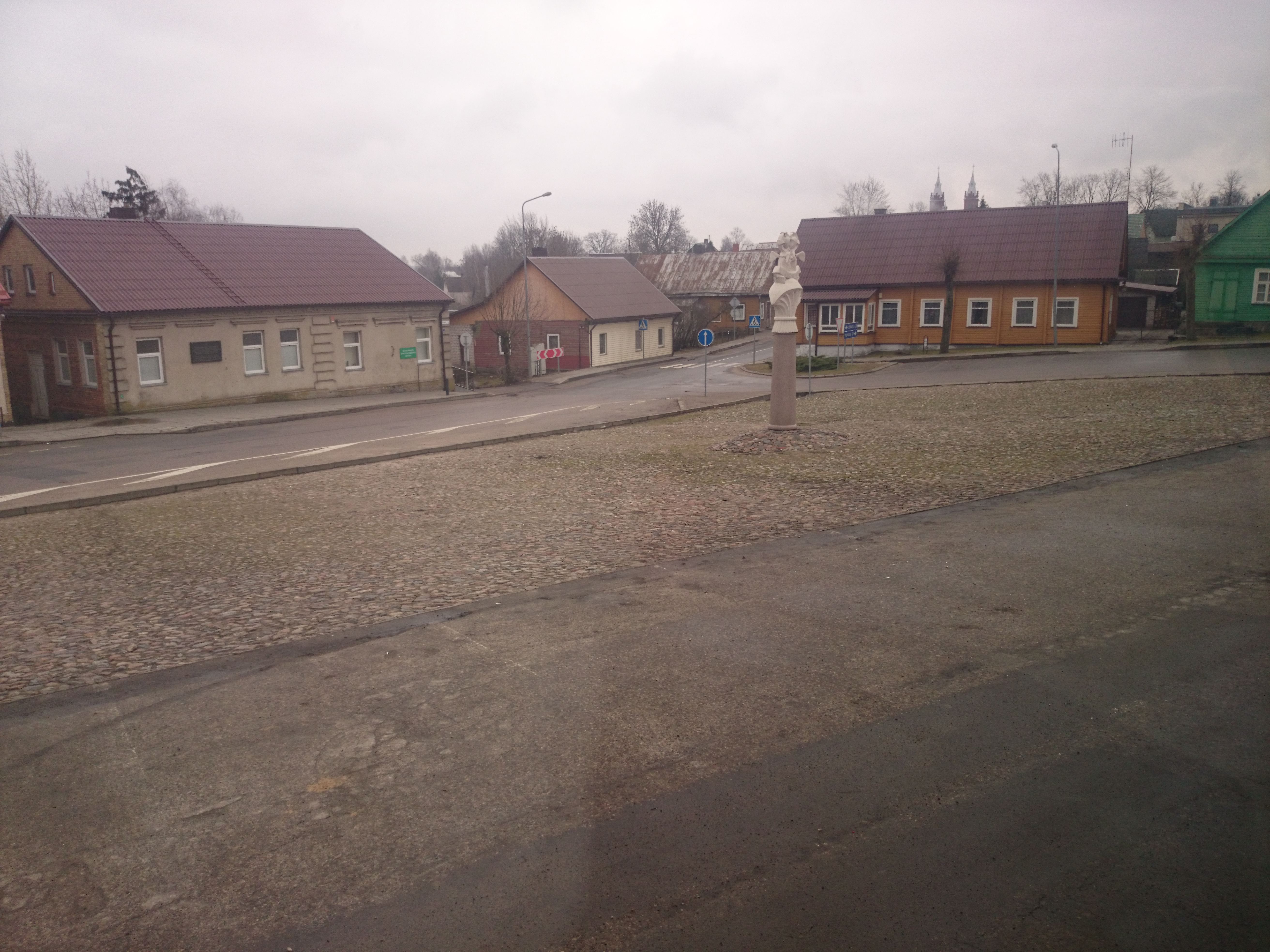 Žasliai